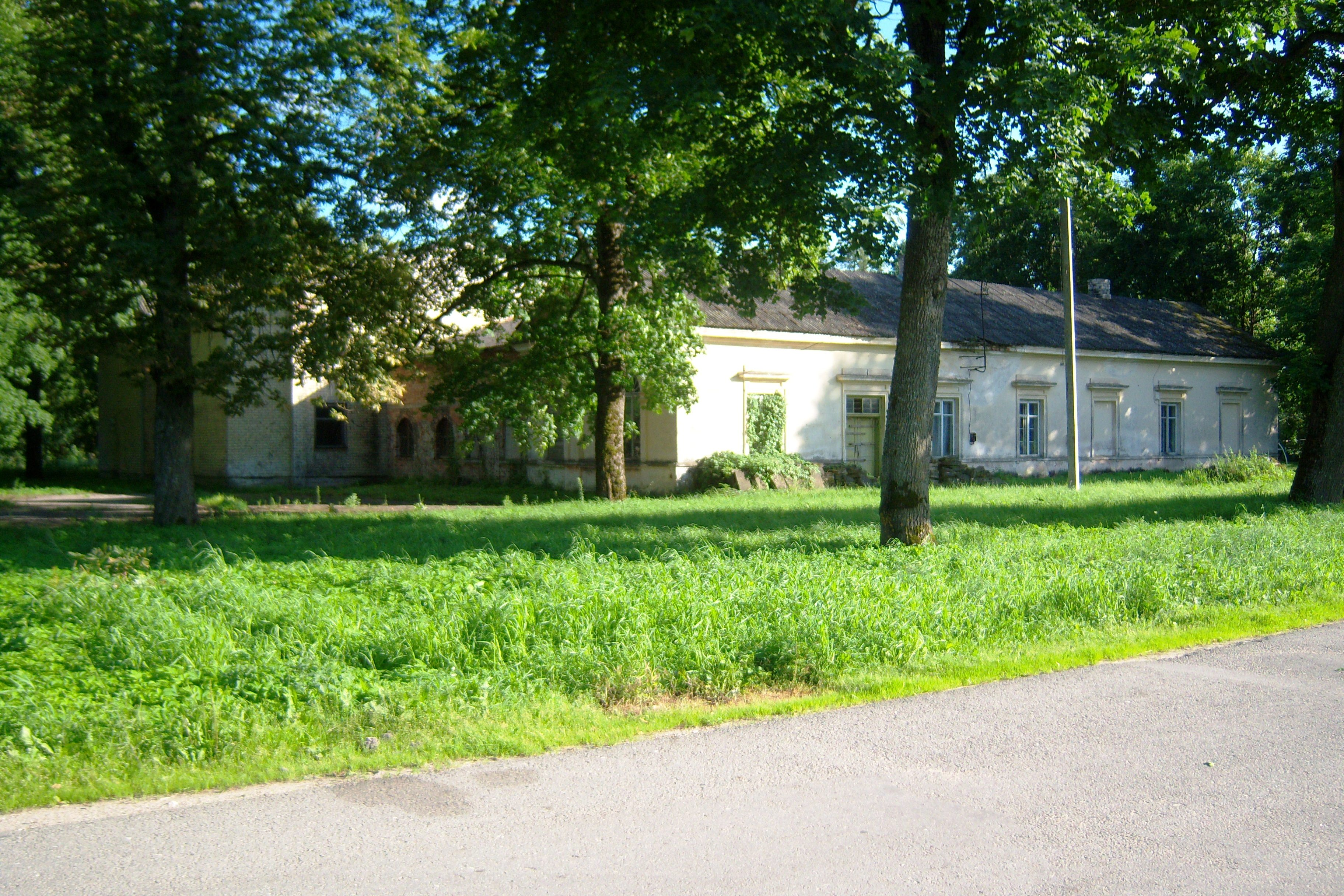 Gėluva manor, Raseiniai district, Lithuania